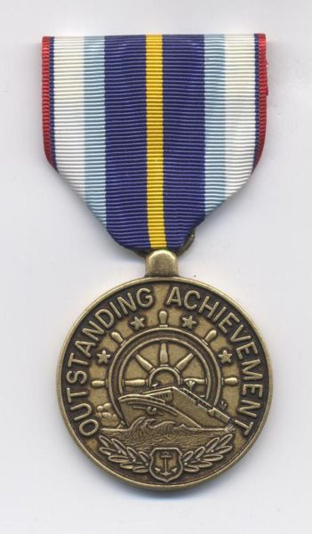 The obverse of the Merchant Marine Medal of Outstanding Achievement